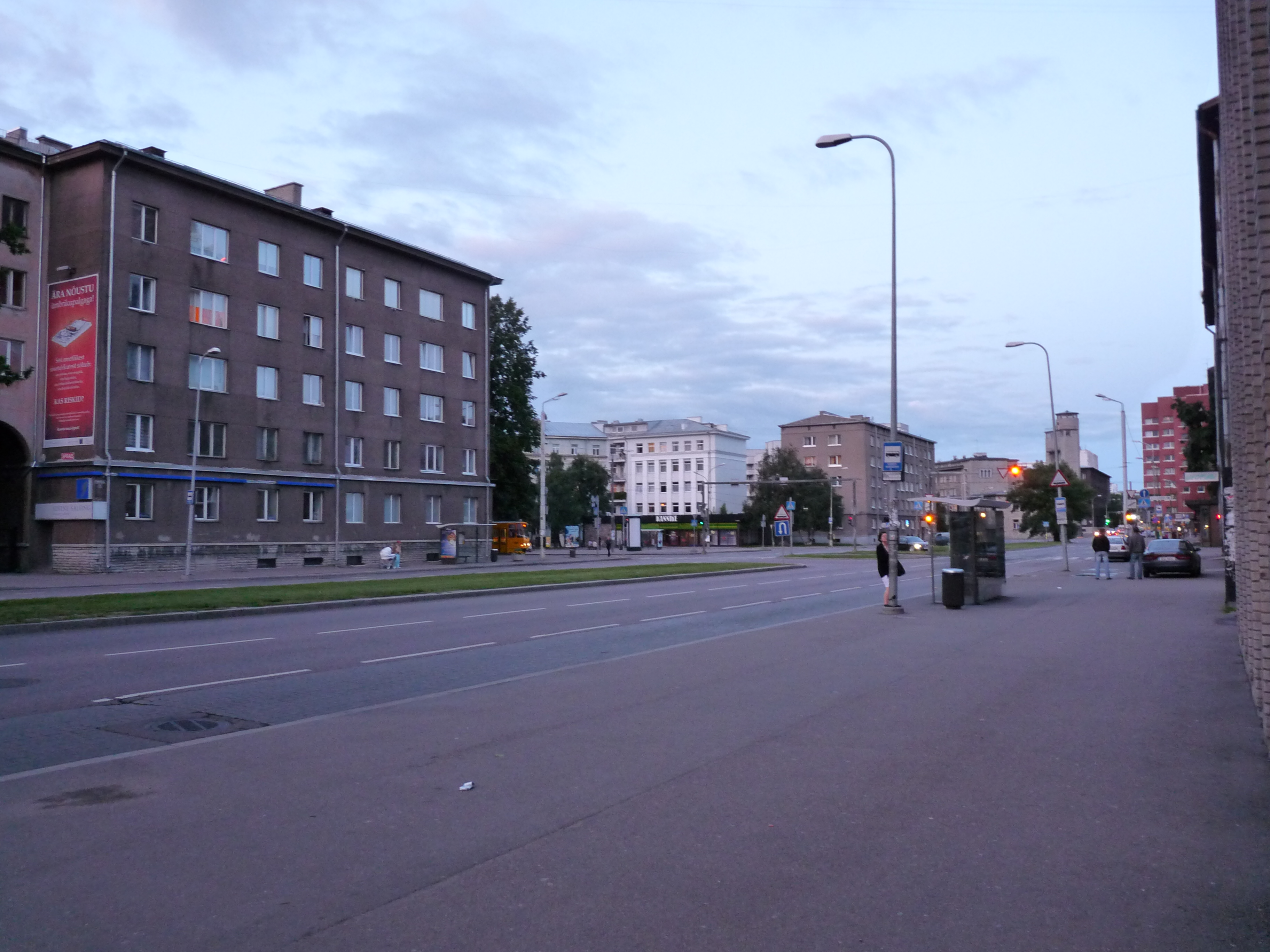 Gonsiori street in the center of Tallinn